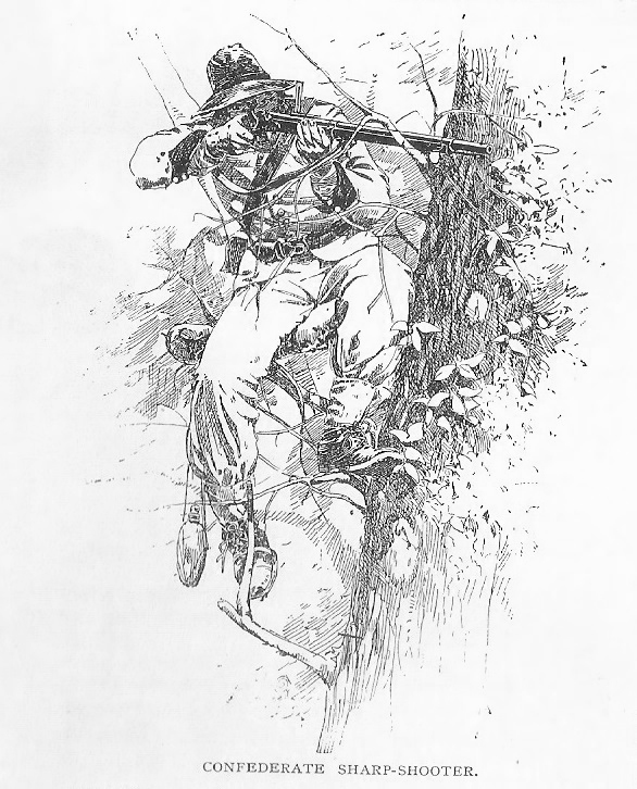 Confederate State sharpshooter in a tree